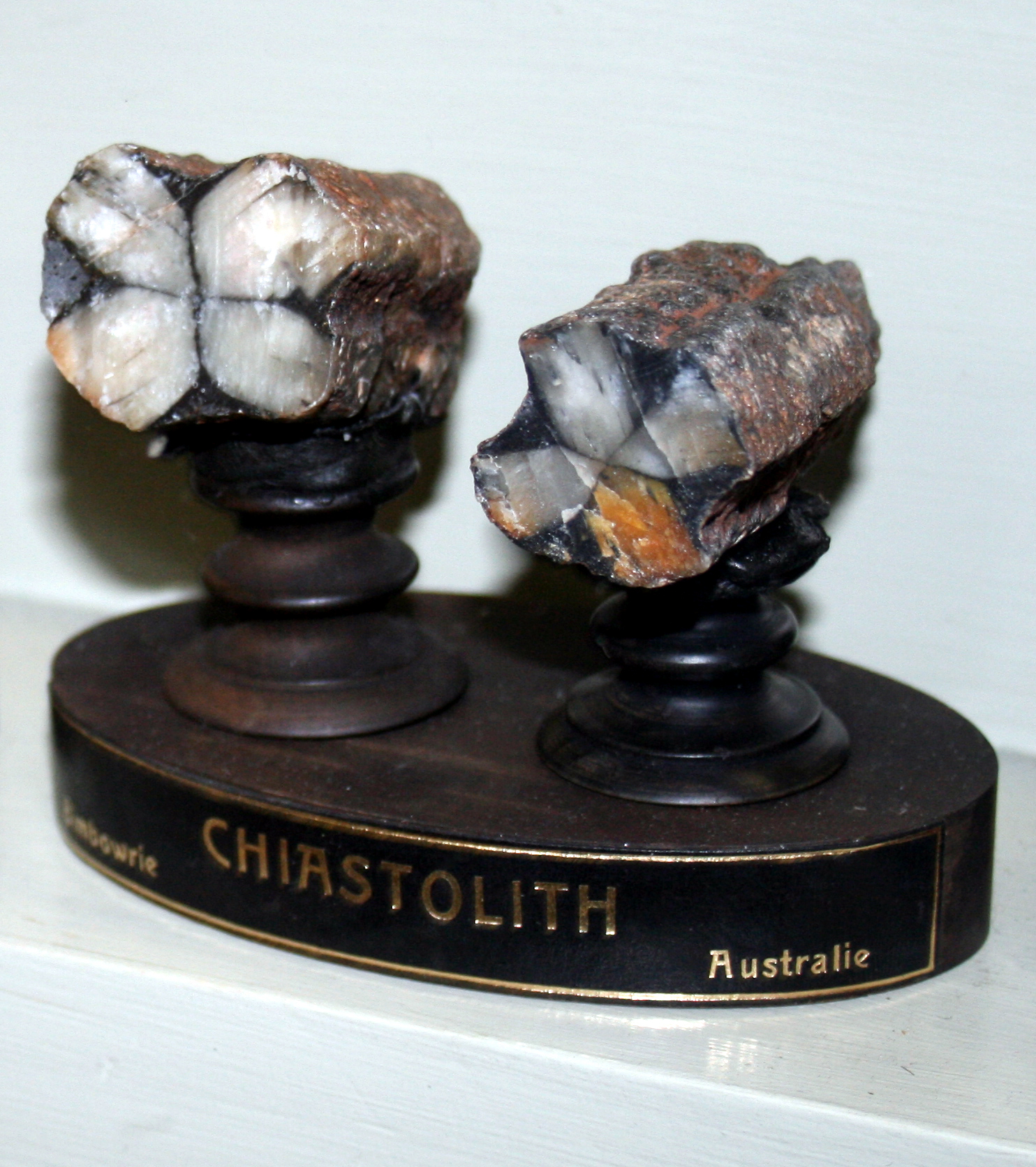 Mineral chiastolite, chemical composition: Al2SiO5, from collection of National Museum, Prague, Czech Republic, originally from Australia